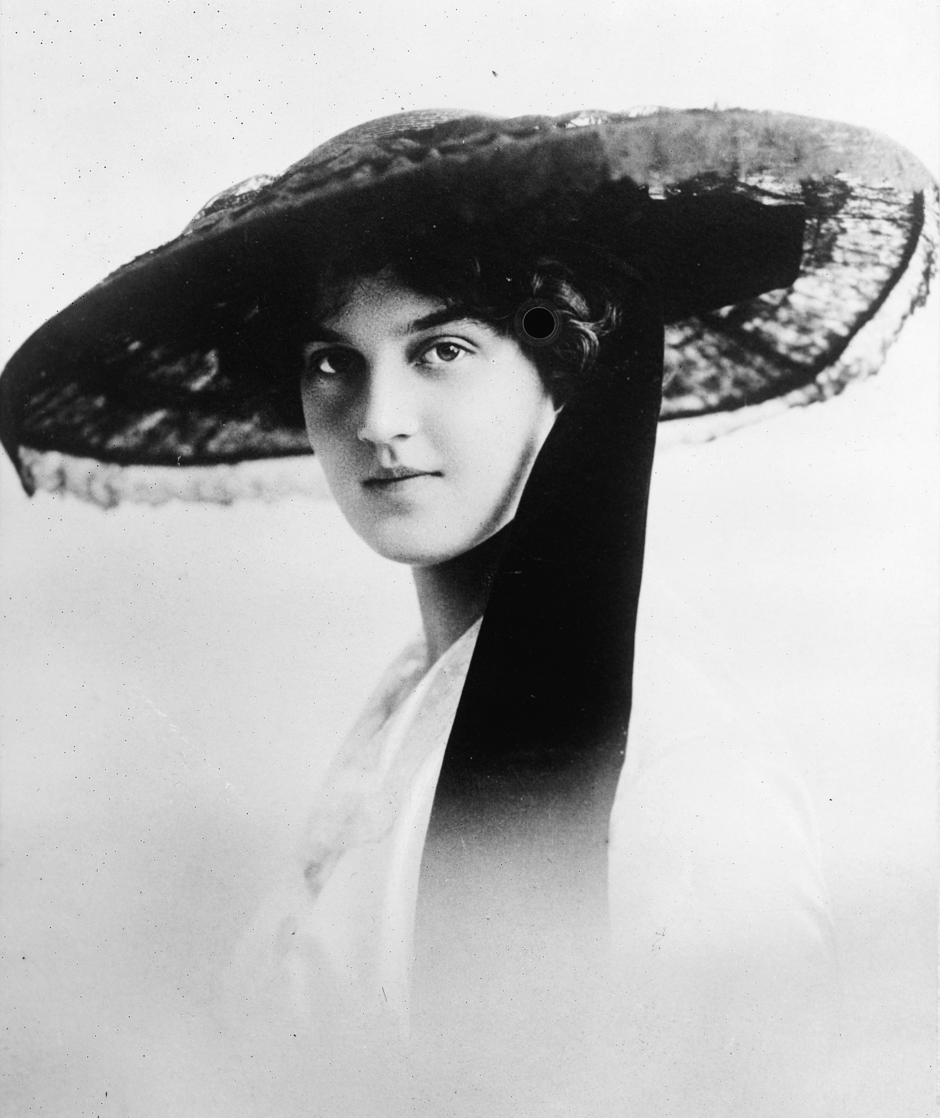 Maria of Sweden (Russia)